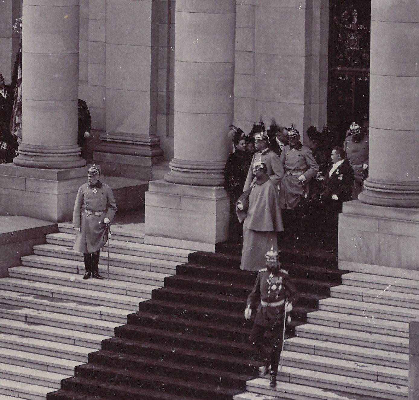 Cutout of a CAB taken by Wilhelm Fülle of the German Emperor Wilhelm II as he opens the Ruhmeshalle in Barmen on 24 Oct 1900. On the left: Ernst Graf von Wedel (1838-1913), Oberstallmeister.